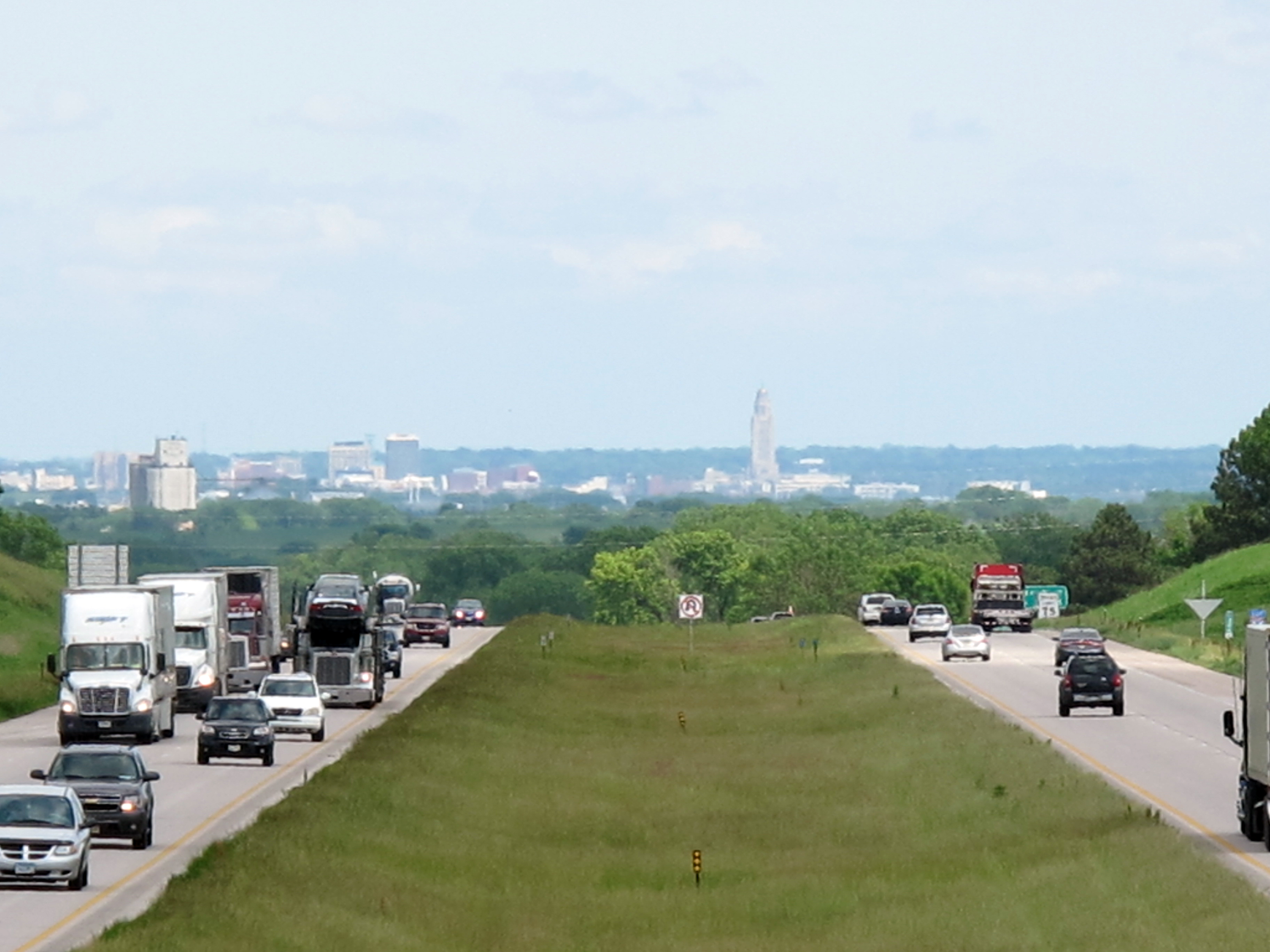 Photo of Lincoln, Nebraska, USA; as seen from the Nebraska Highway 103 interchange overpass at Interstate 80, in Seward County, Nebraska. Photo is looking nearly due east and slightly southeast towards downtown Lincoln. The Nebraska State Capitol Building can be seen just right of center and downtown Lincoln to the left of the capitol.